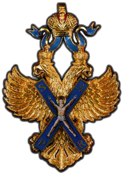 Badge of the Order Of Saint Andrew The Apostle. Russian Federation, 1998